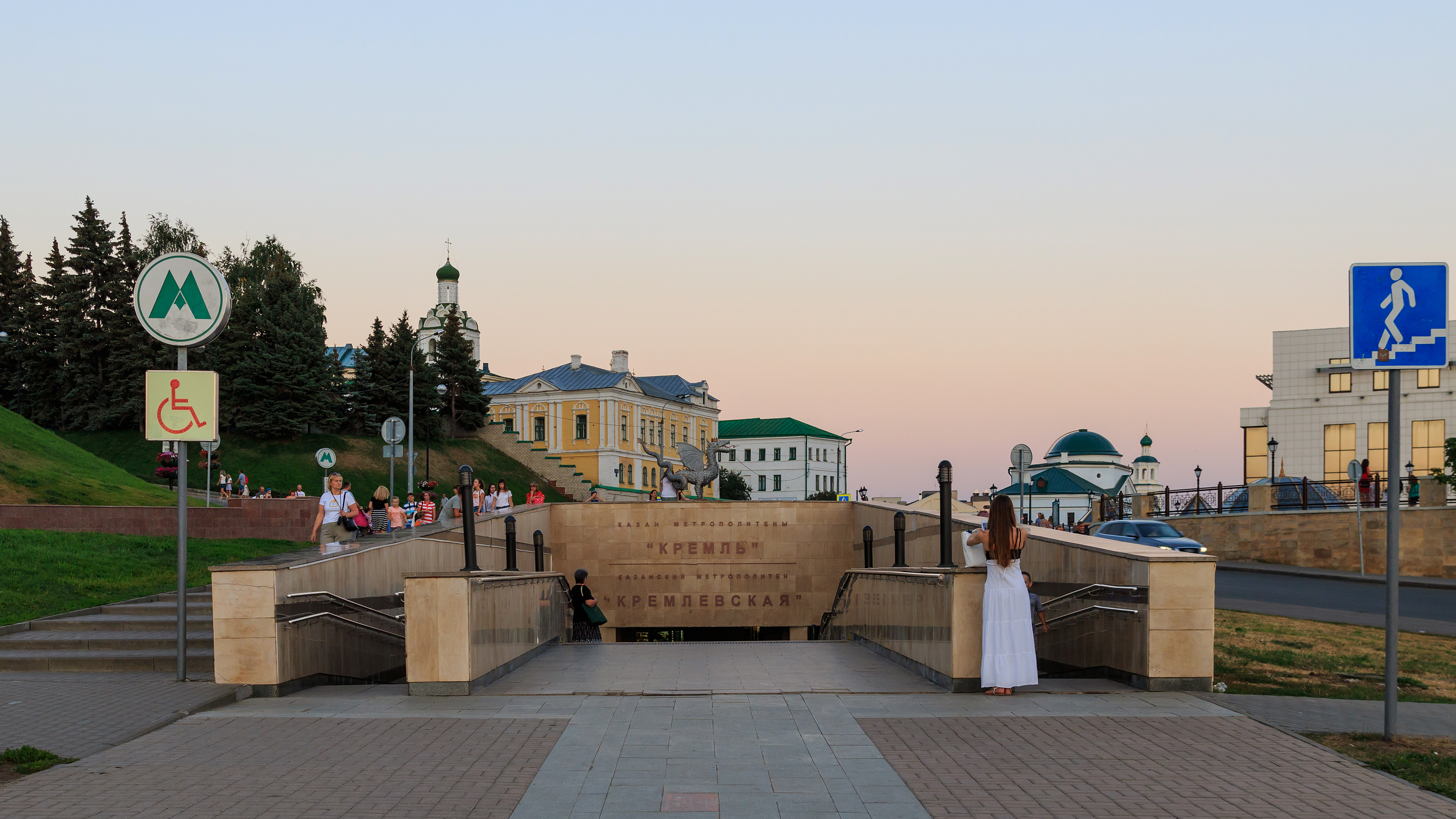 An entrance of Kremlevskaya metro station in Kazan, Russia